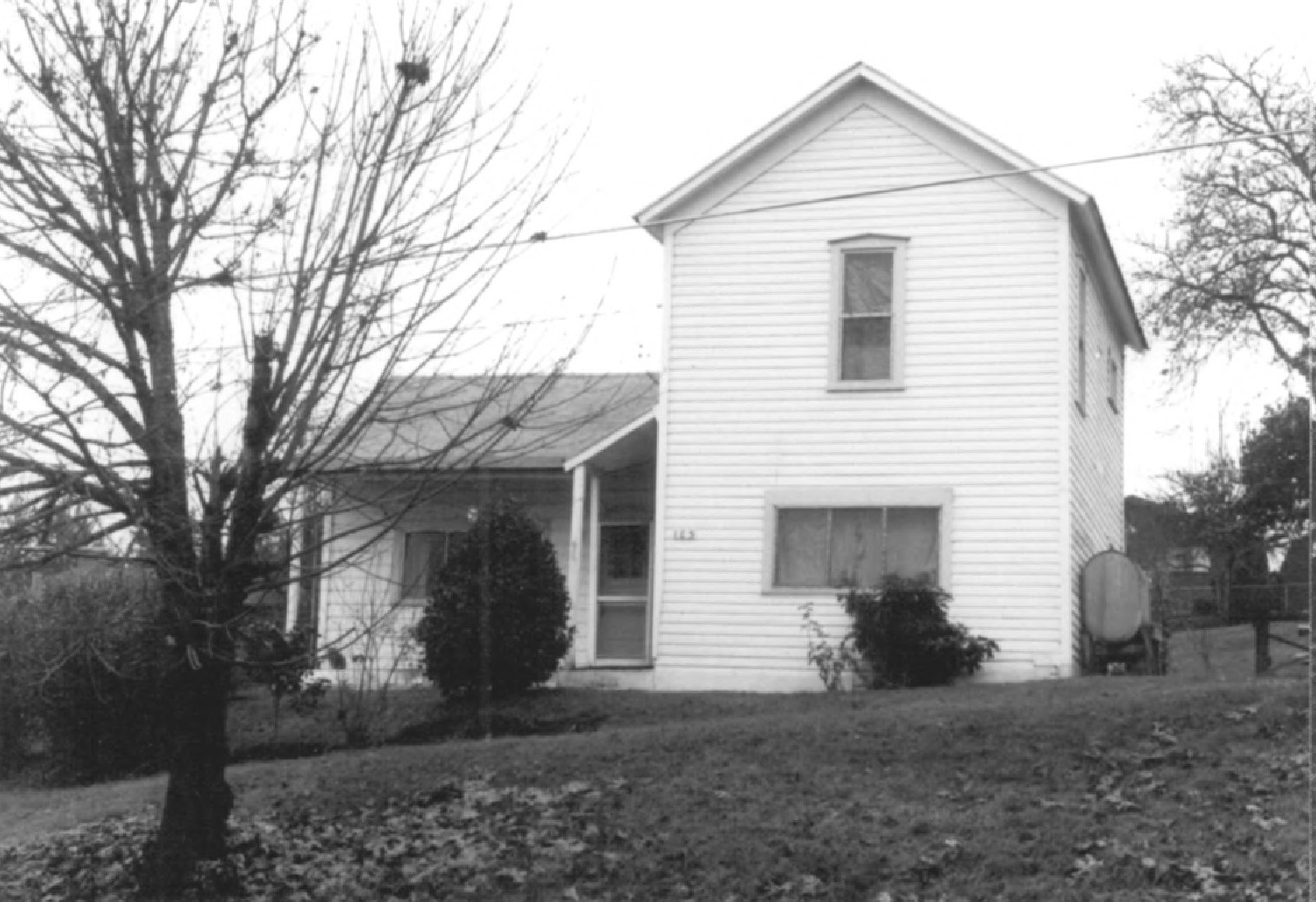 The historic Dr. Stuart House (built ca. 1887), formerly located at 103 Ferry Street in Dayton, Oregon, United States, is listed on the US National Register of Historic Places. It has since been demolished.